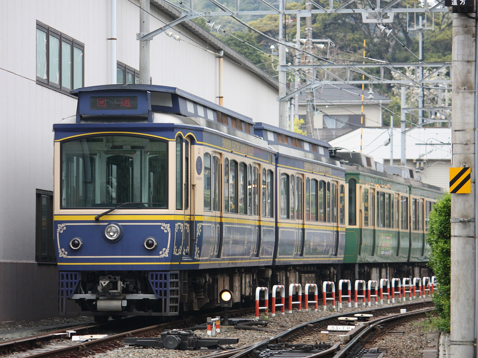 Enoden Type 10 at Gokurakuji Depot